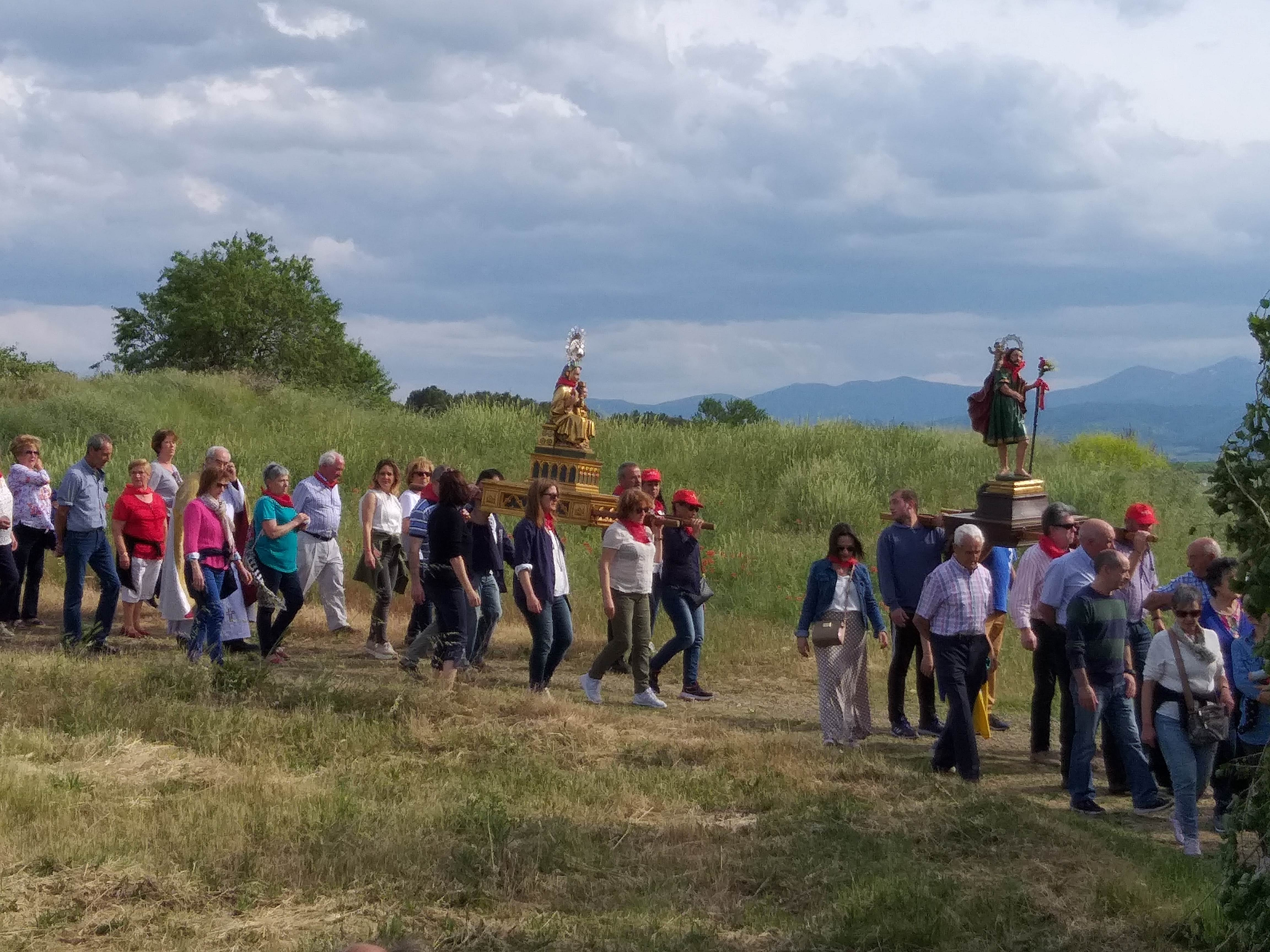 Festivity of La Virgen de Olartia